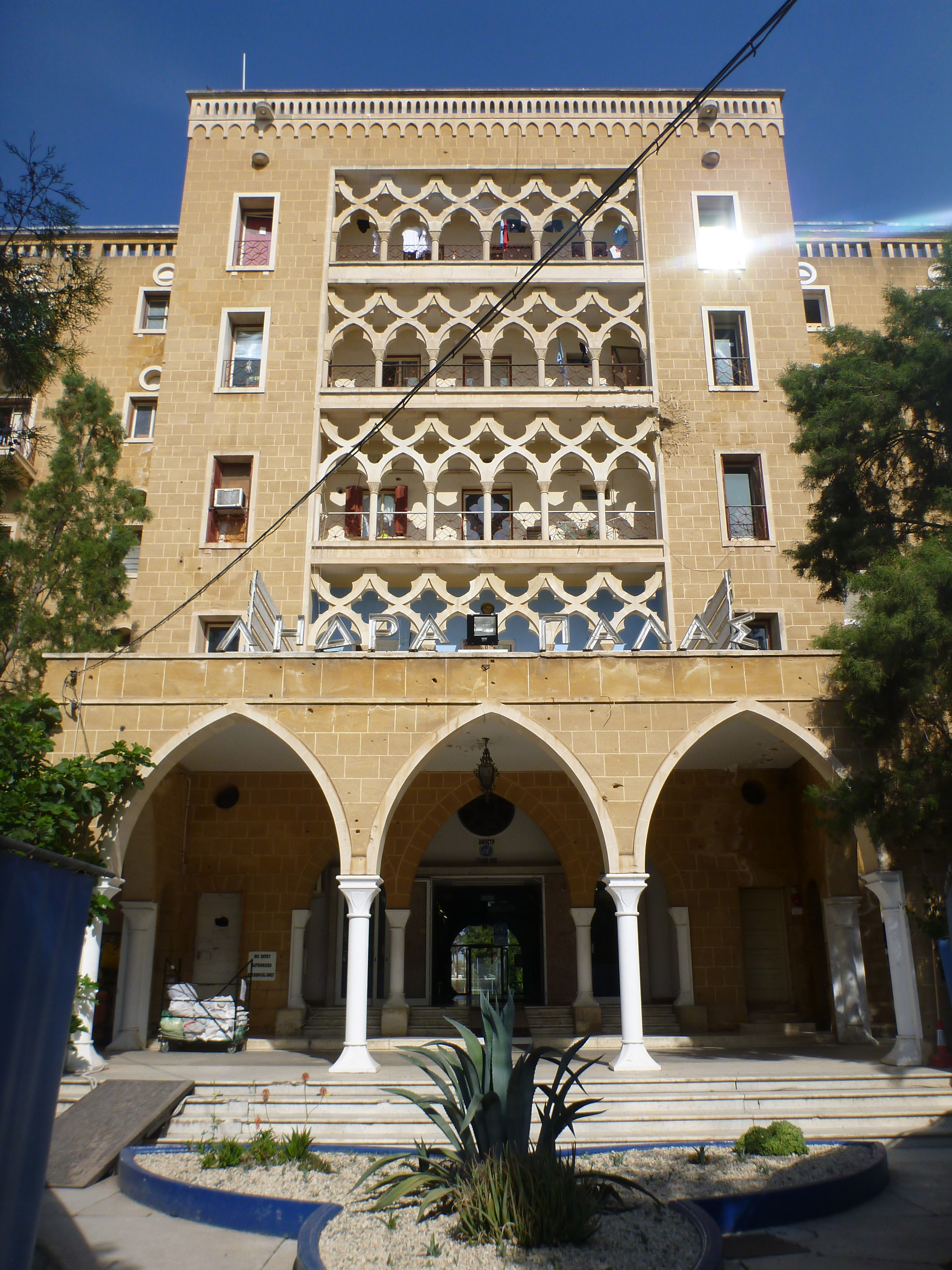 The façade of the Ledra Palace Hotel in Nicosia, Cyprus, headquarters of the UNFICYP BRITCON. Battle scars are visible across the building.